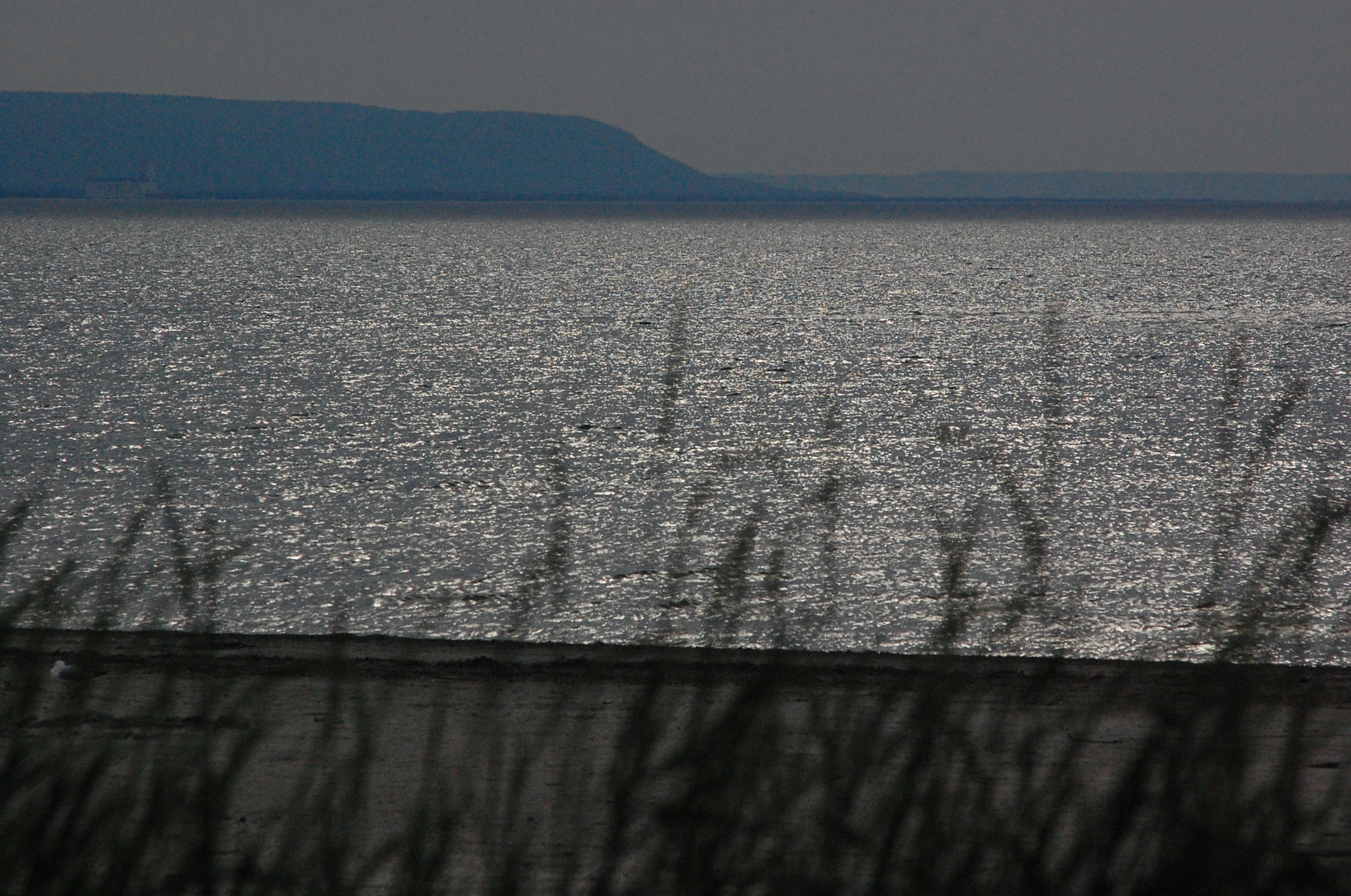 This is a photograph of the Niagara Escarpment, where it makes its southernmost approach to Georgian Bay, taken late in the day by John Chew on 2008-07-02 from Wasaga Beach Provincial Park Beach #3, in Wasaga Beach, Ontario, Canada